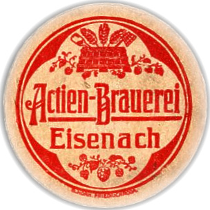 Beer mat of the Actien-brewery Eisenach in Thuringia